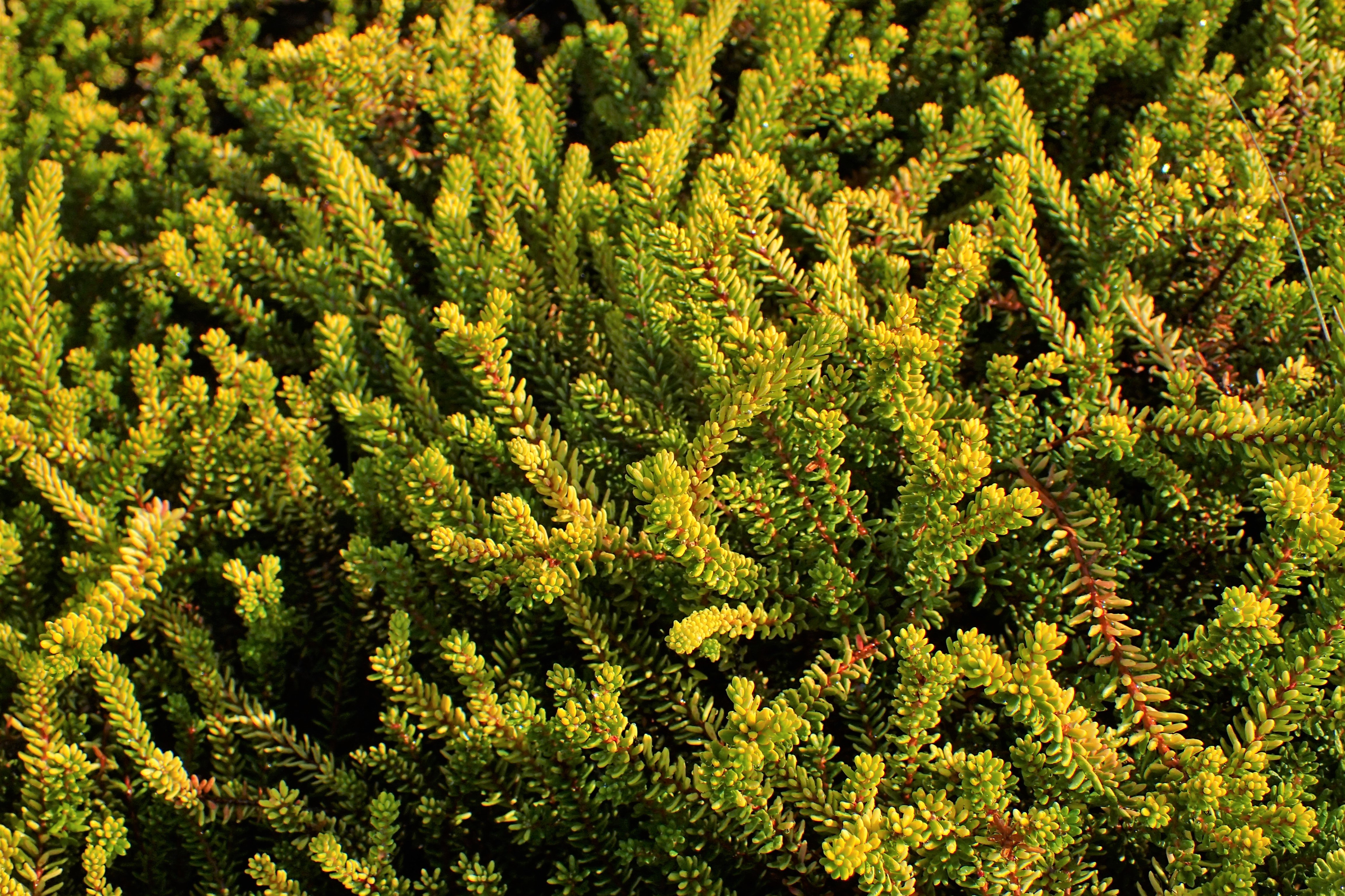 Empetrum nigrum 'Berstein' in botanical garden in Kielce